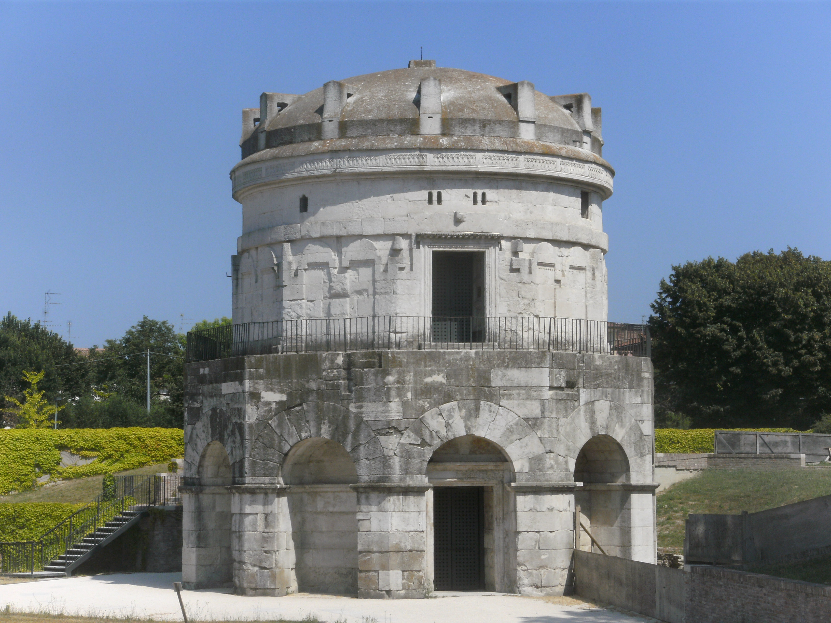 Theoderic's mausoleum in Ravenna